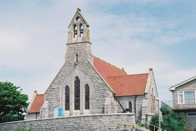 Portland: ‘Avalanche’ memorial church The church of St. Andrew, Southwell, Portland, was built as a memorial to victims of the wrecked ship ‘Avalanche’.